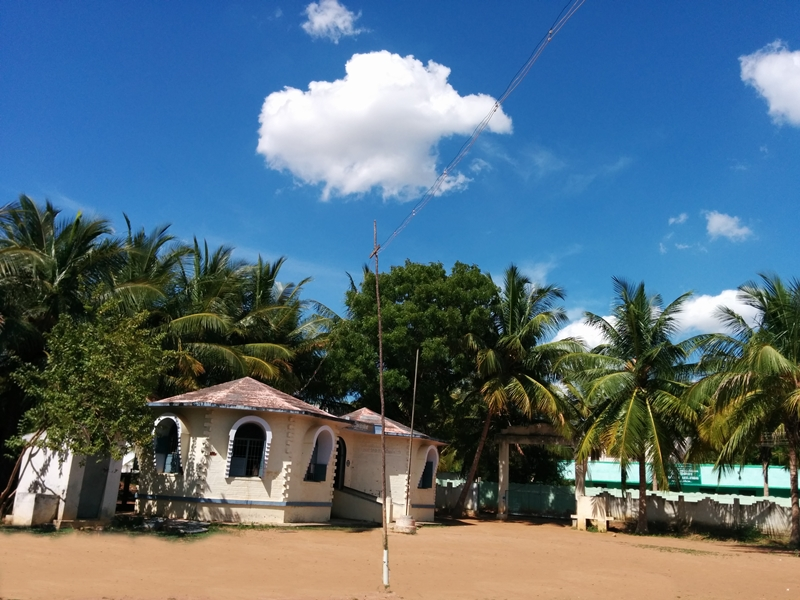 ஊராட்சி ஒன்றிய நடுநிலைப்பள்ளி, காசிம்புதுப்பேட்டை